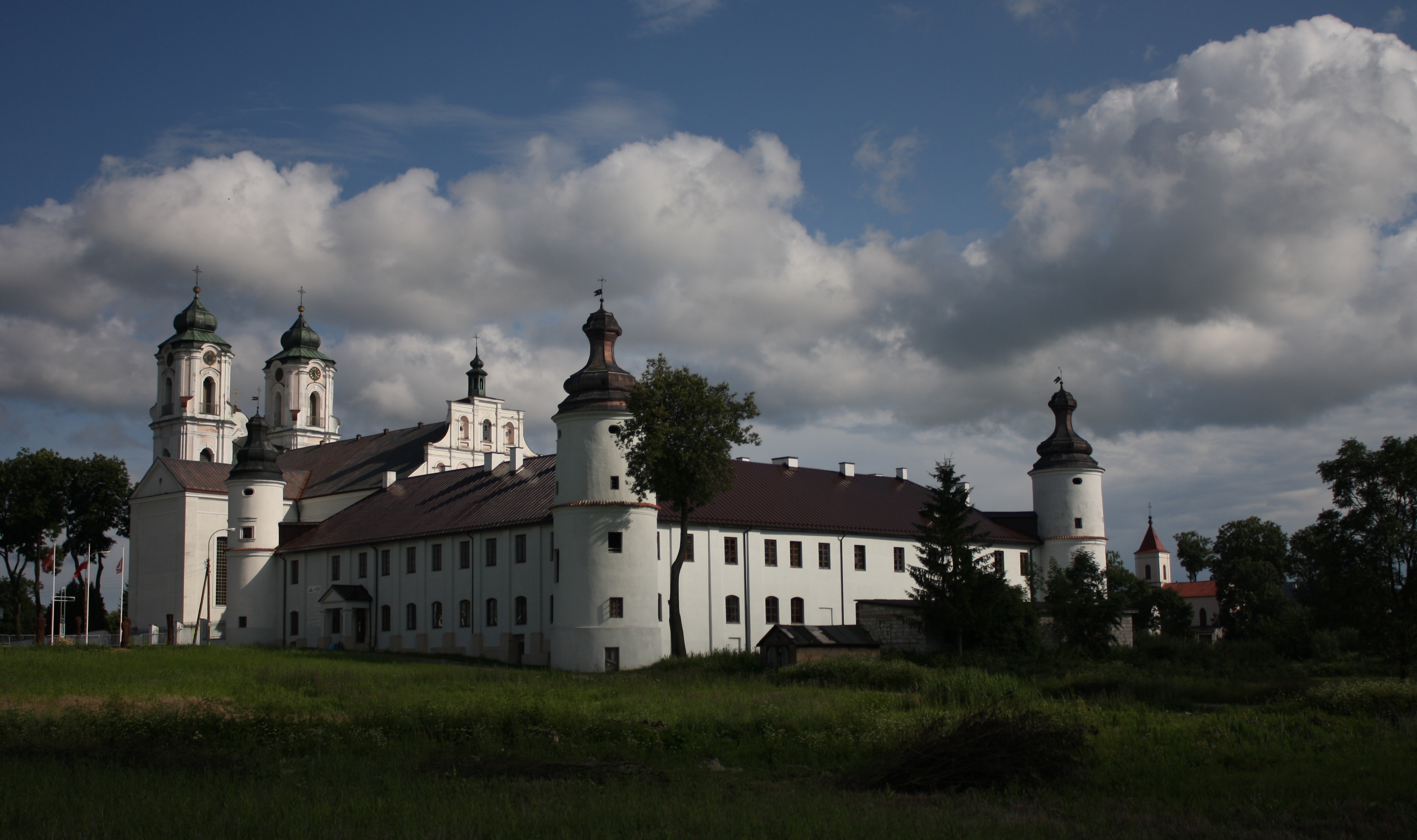 Sejny (Podlasie Voivideship). Church of Visitation of Virgin Mary and former Dominican Monastery